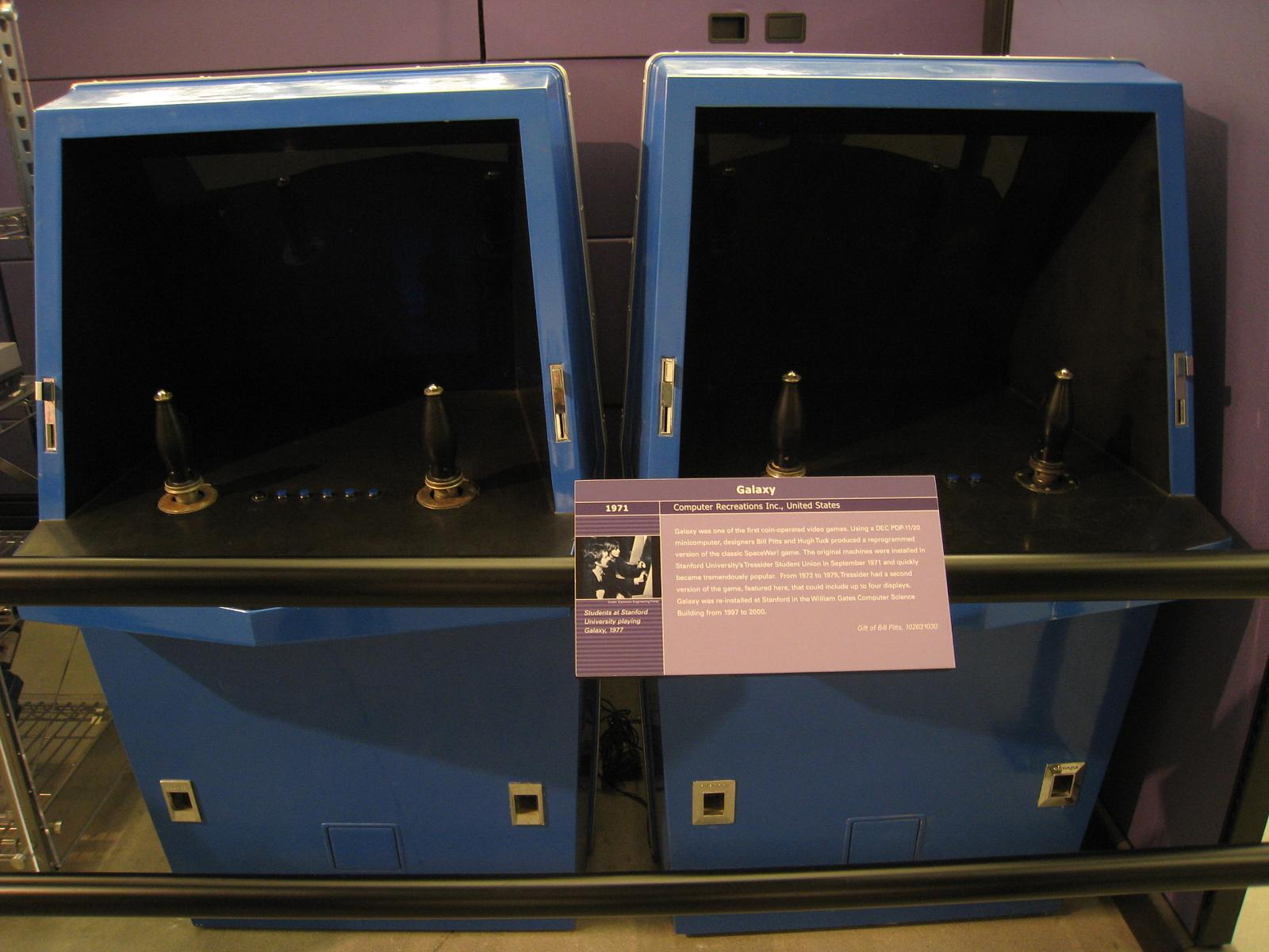 Galaxy Game 1971, first arcade game ever, Computer Space, 1971 was 1st commercial onefirst arcade game evar